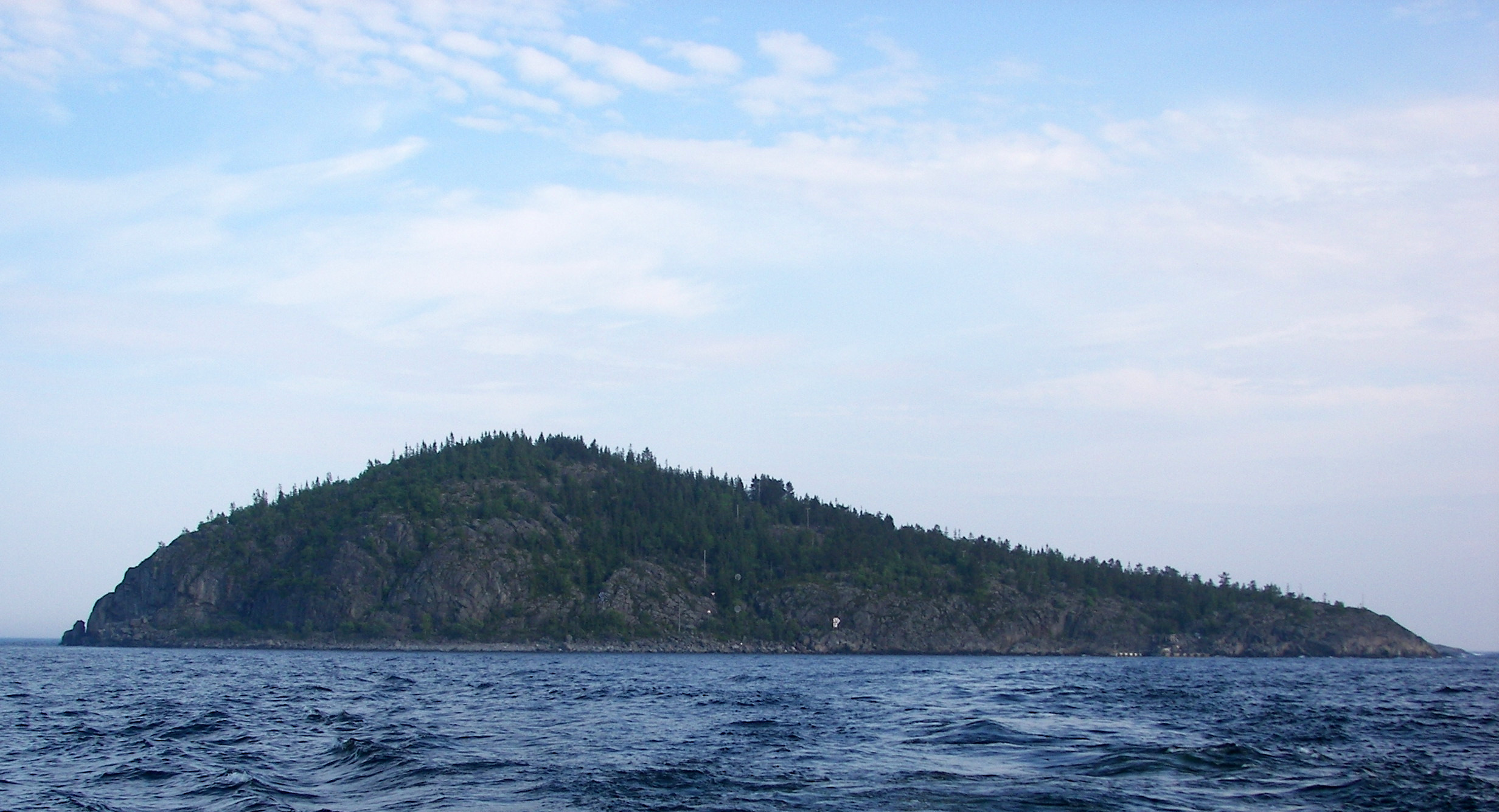 Högbonden as seen from west, High Coast, Sweden